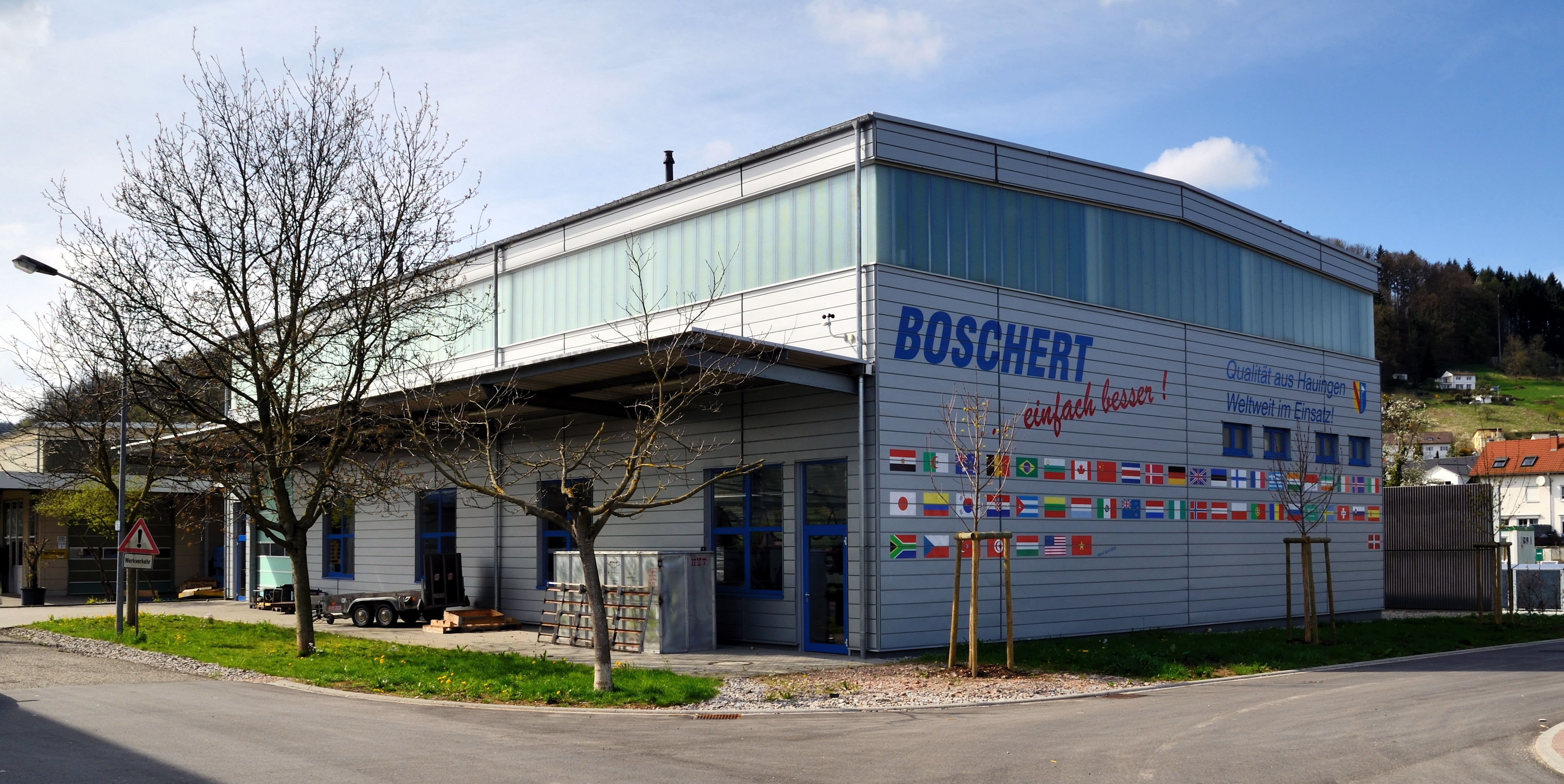 Lörrach-Hauingen: company building of "Boschert"